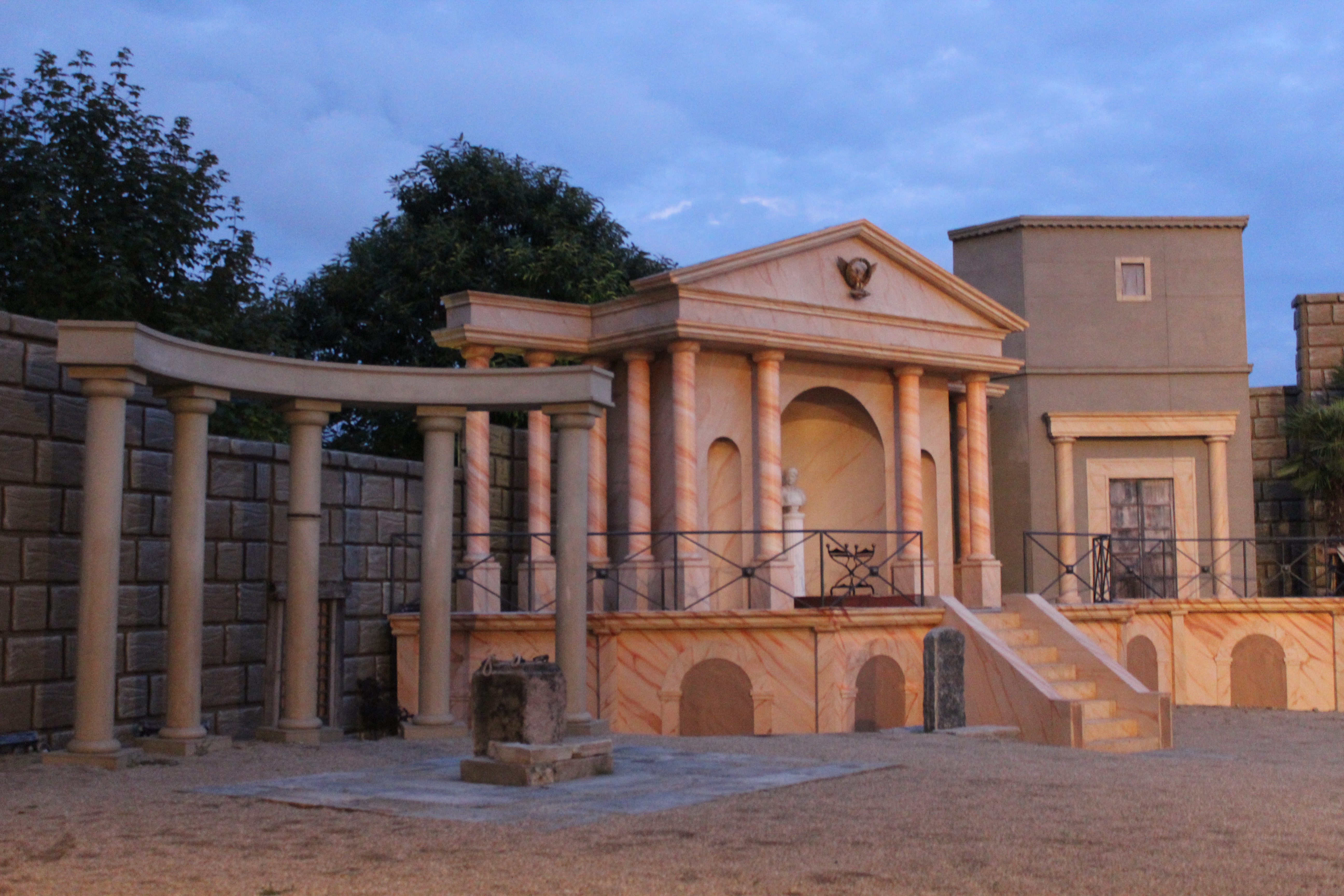 Pilates's Praetorium of Sordevolo Passion Play